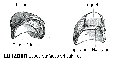 Lunatum (Osteology)